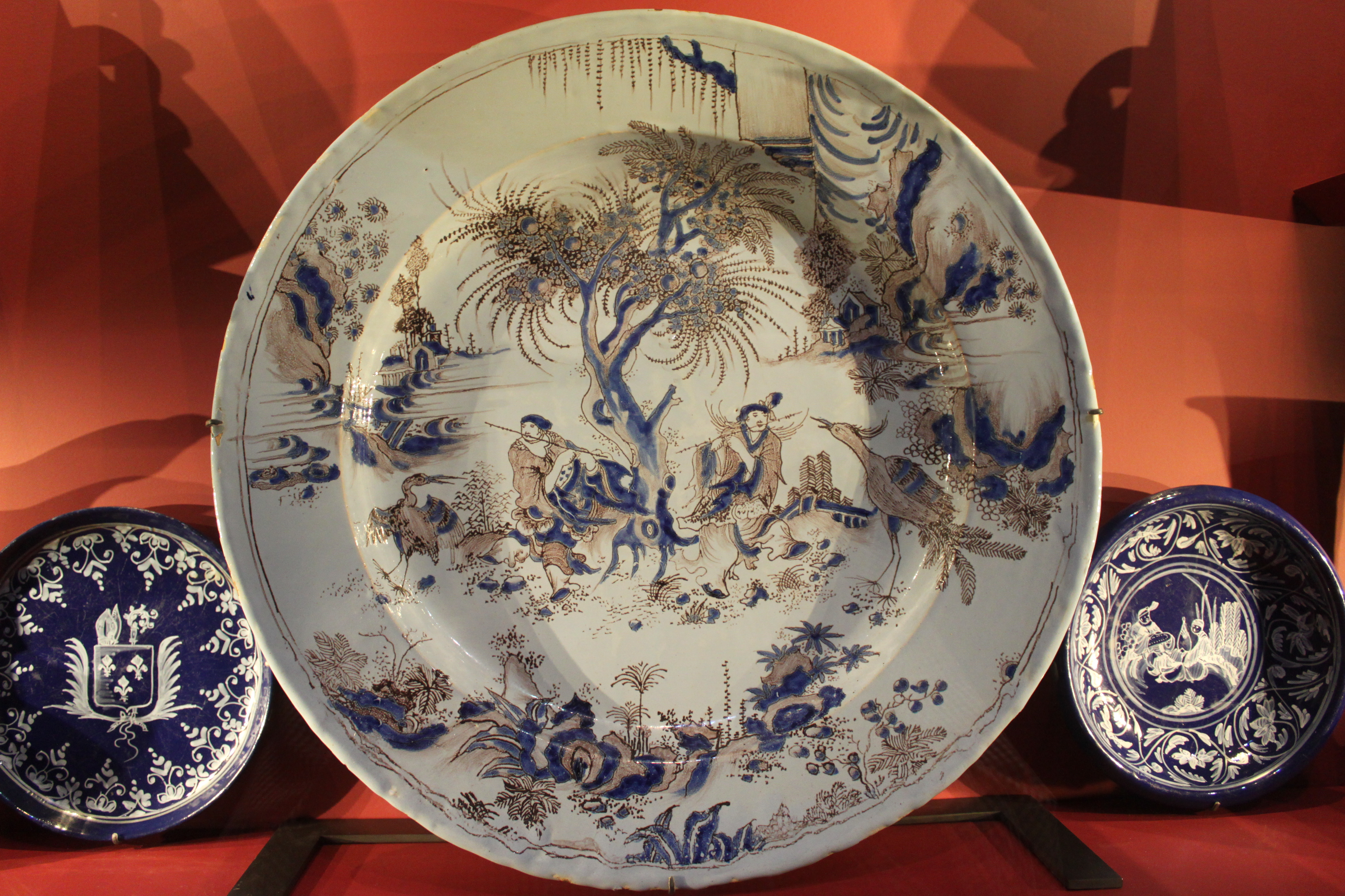 Large ceremonial basin with chinoiseries - Nevers - 1660-1680 - Louvre - Inv OA 12546 - Room 37